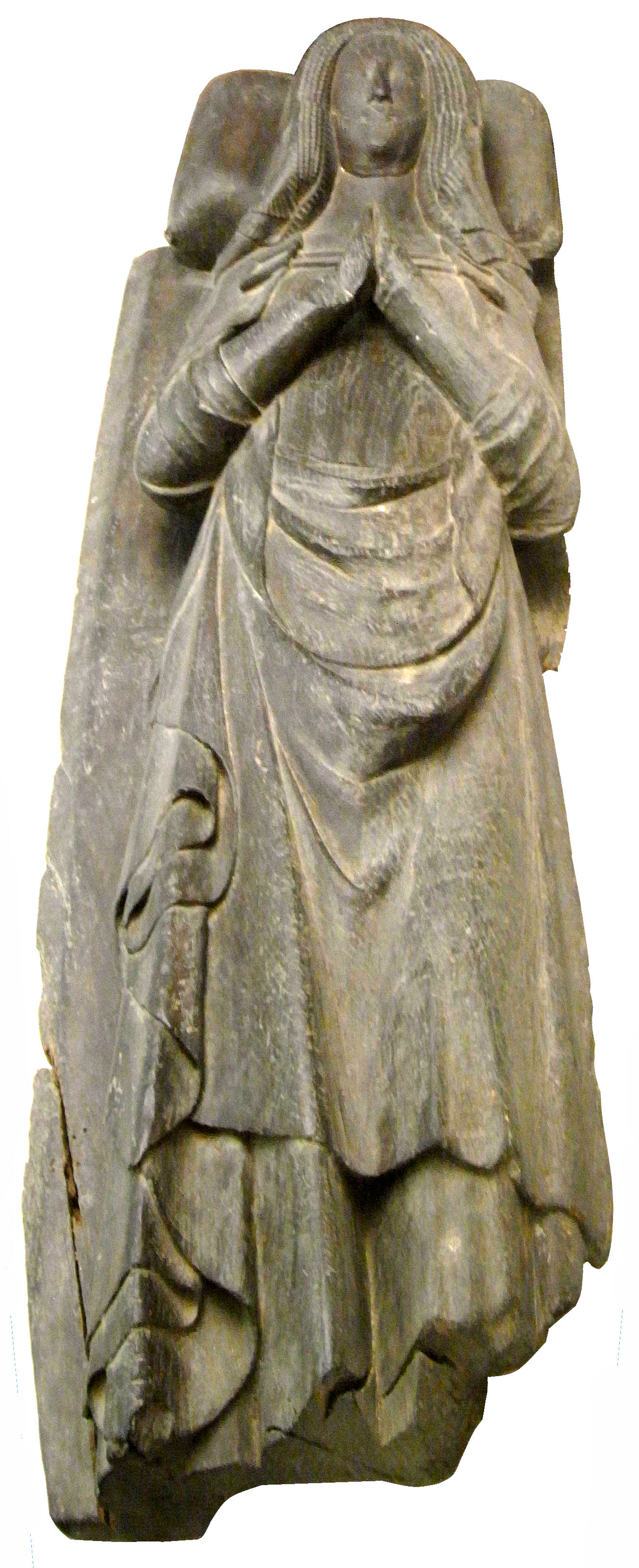 Oak wood effigy of Lady Margaret II Audley (d.1373), wife of Fulk VIII FitzWarin, 4th Baron FitzWarin (1341-1374) and heiress of a moiety of the feudal barony of Barnstaple, including the later capital manor of Tawstock. Effigy formerly in Tawstock Church under a recessed arch in wall of north chancel, now in Museum of Barnstaple and North Devon, Barnstaple, Devon